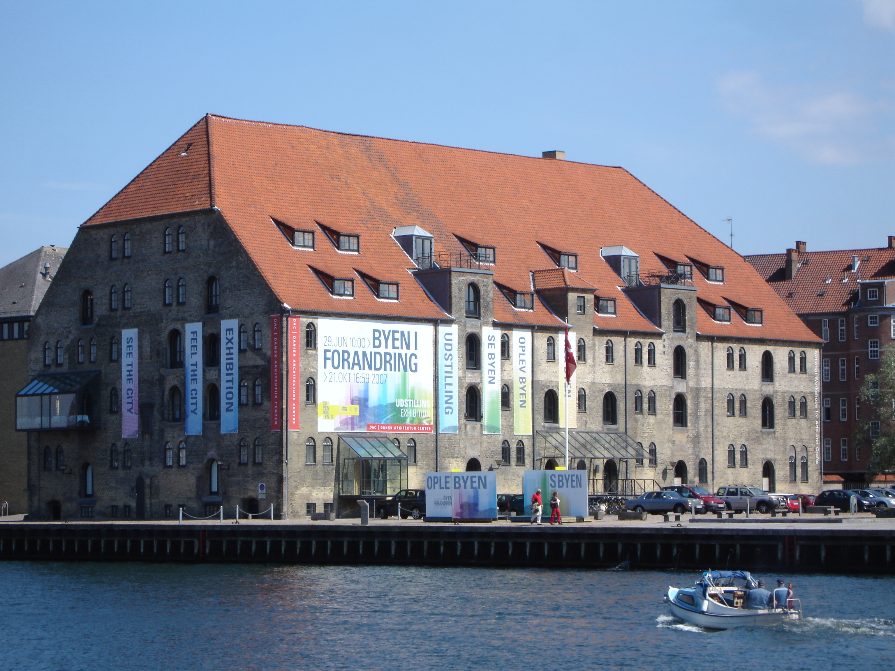 The former warehouse Gammel Dok (Old Dock) on the harbourfront in Copenhagen. It now houses Danish Architecture Centre (DAC). The name of the building refers to a dry dock which used to be located at the site before it moved to Holmen a bit further north.